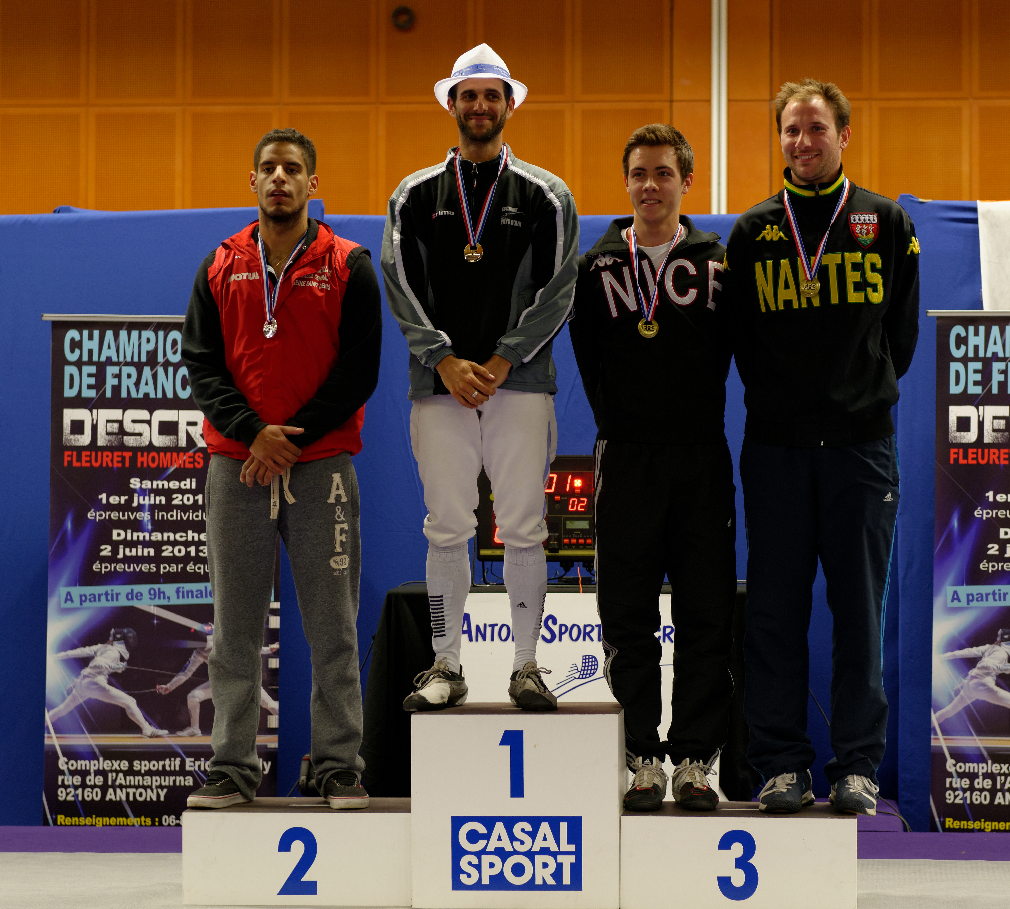 Men's foil podium in the French Fencing Championship; from left to right: Ghislain Perrier, Erwann Le Péchoux, Baptiste Mourrain, and Jordan Moine. Éric Tabarly Sports Complex in Antony, 2013.